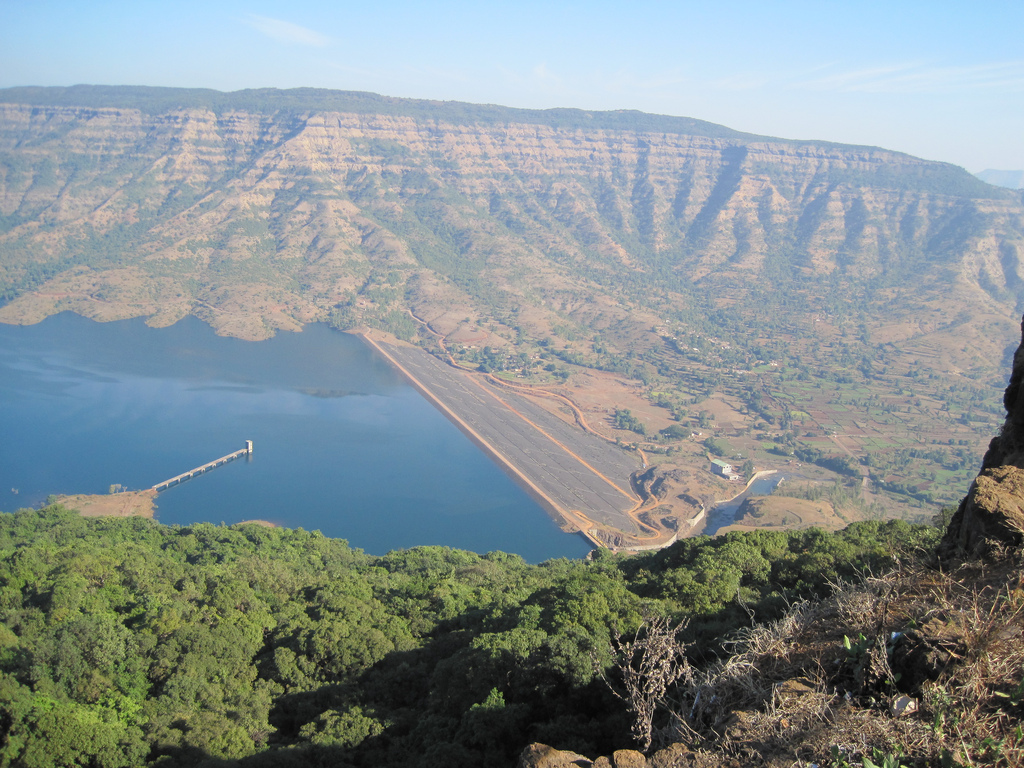 Balakwadi Dam, viewed from Kate's Point near Mahabaleshwar, in Maharashtra. The mountains in the distance are part of the Western Ghats.